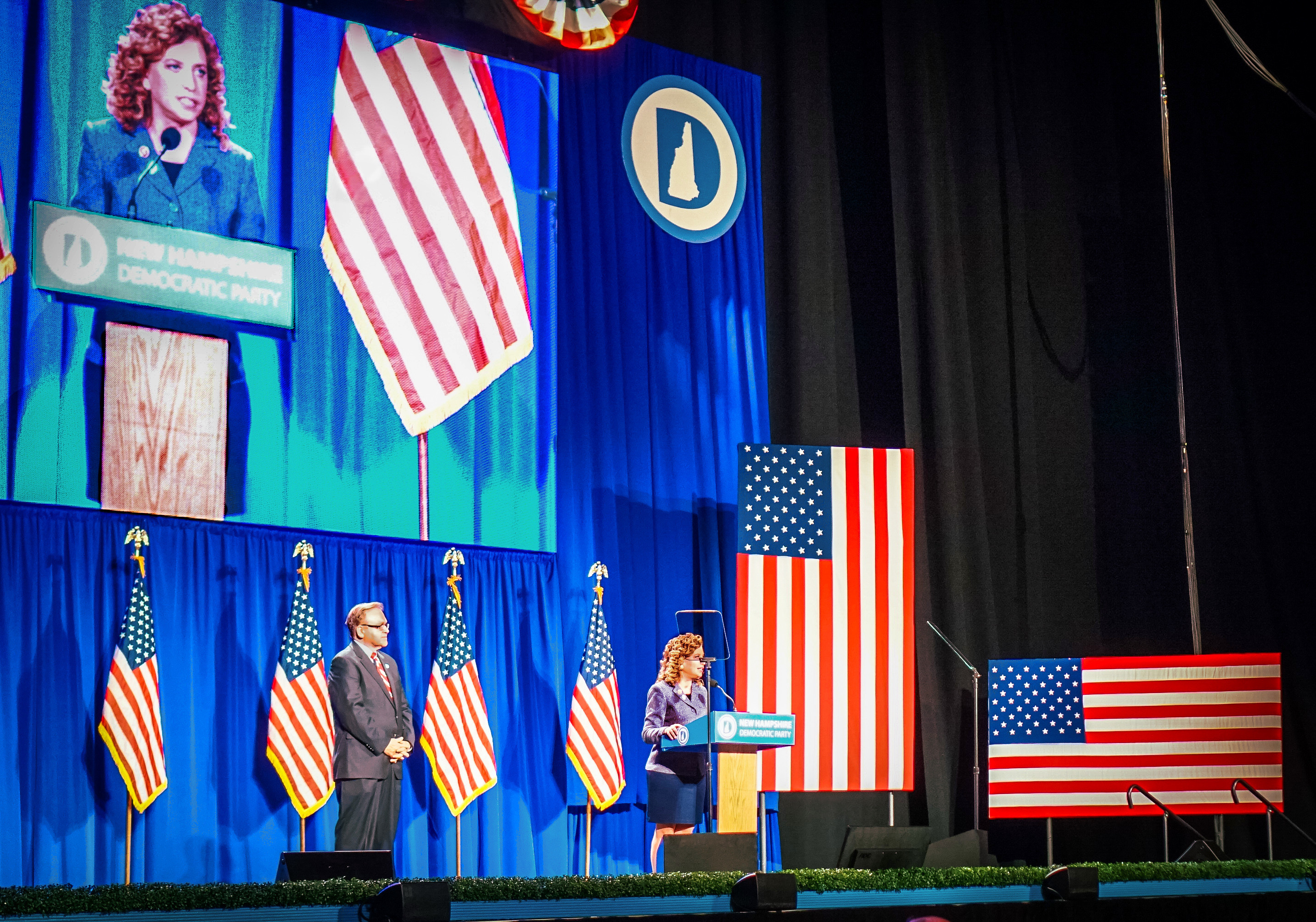 2016.02.05 Manchester New Hampshire, USA 02352